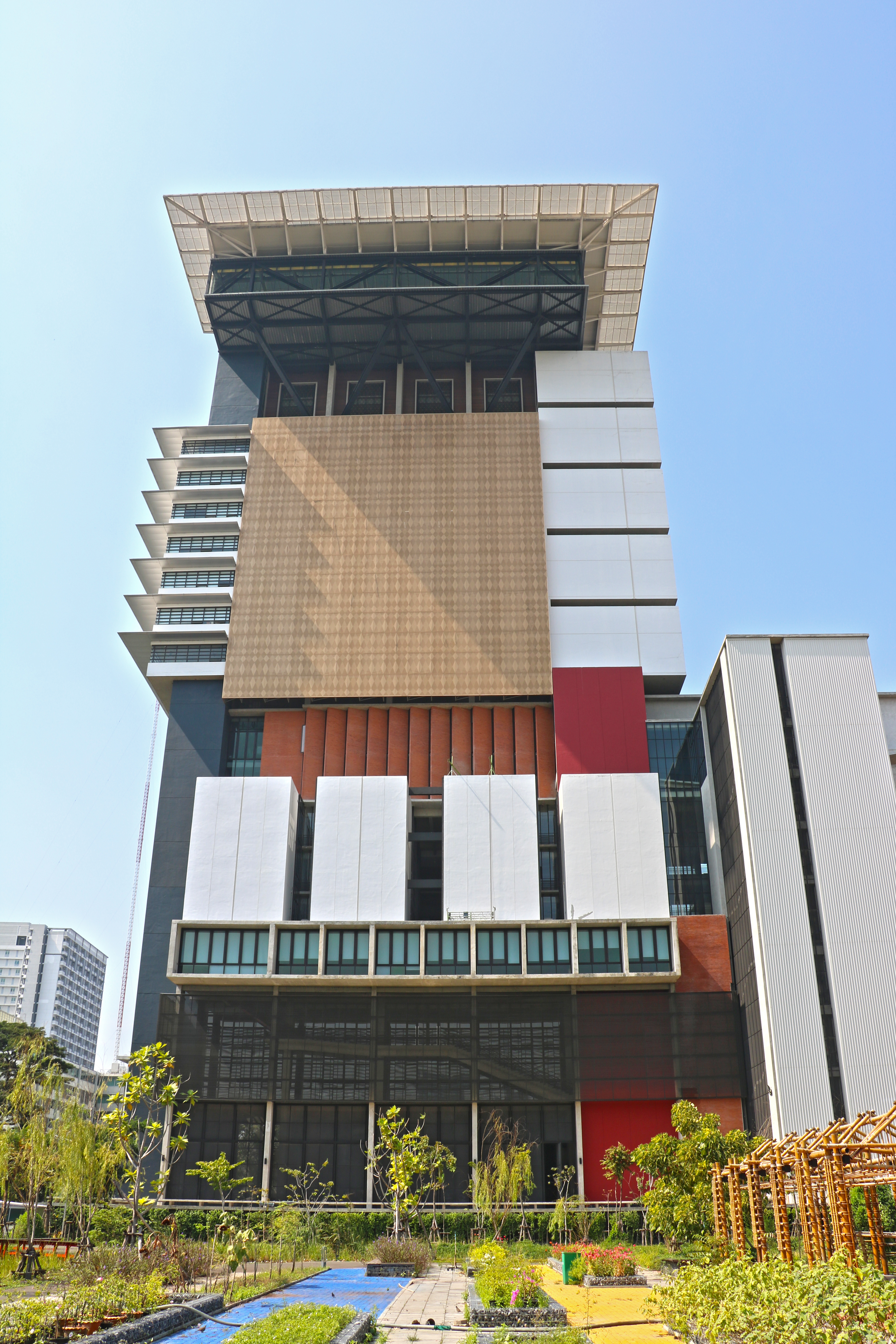 Jamjuree 10, Chulalongkorn University, Thailand.